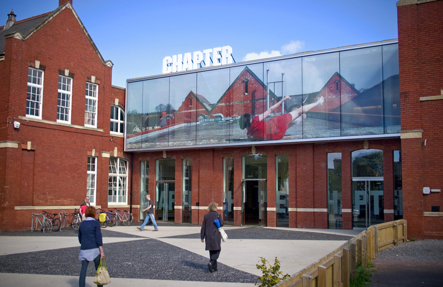 Chapter entrance, June 2010 displaying the work of artist, Holly Davey.